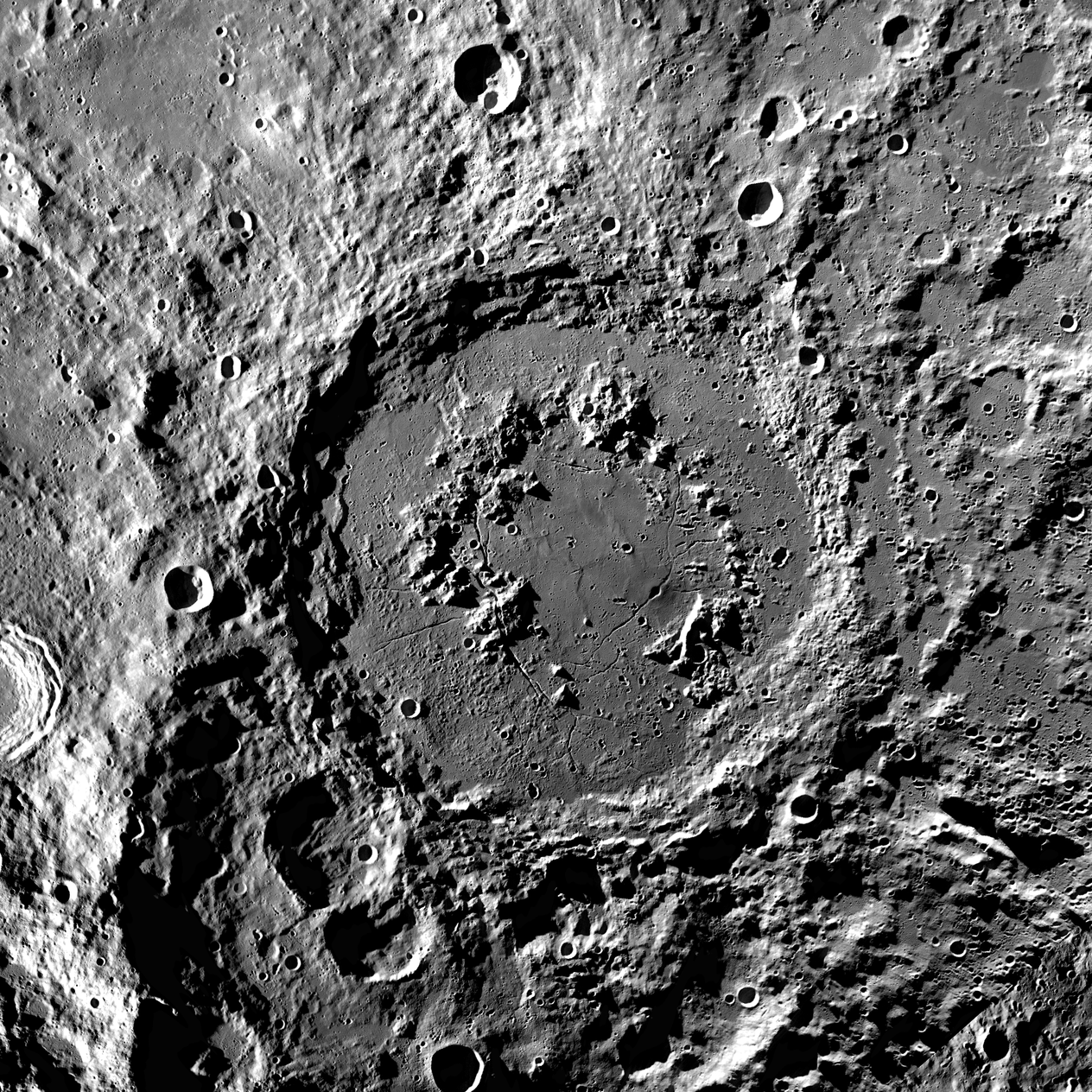 Crater Schrödinger on the Moon, in southern part of the far side. Mosaic of photos by Lunar Reconnaissance Orbiter, made with Wide Angle Camera. Size of the image is 600×600 km, north is up. The image has the same borders and resolution as a topographic map Schrödinger (GLD100).jpg.